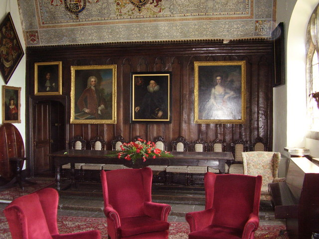 The Hall, Gloddaeth Hall Some Mostyn family portraits still hang over the old dining table. What a credit to generations of children for whom this has been their school that they remain in such good condition!